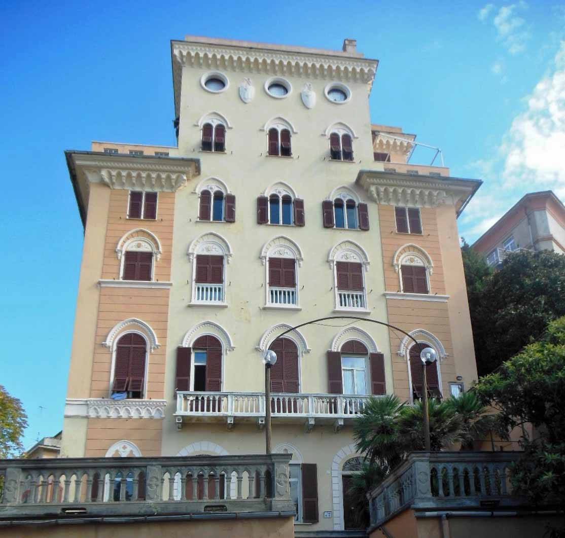 Villa Madre Cabrini Genova main facade